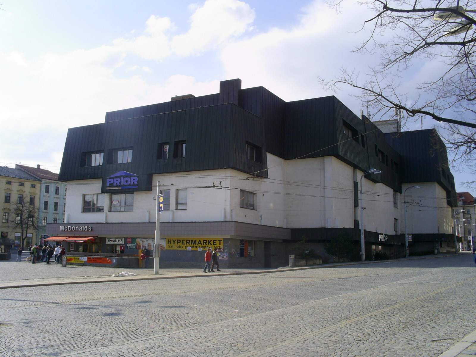 Town center of Jihlava (Jihlava-Czech Republic).